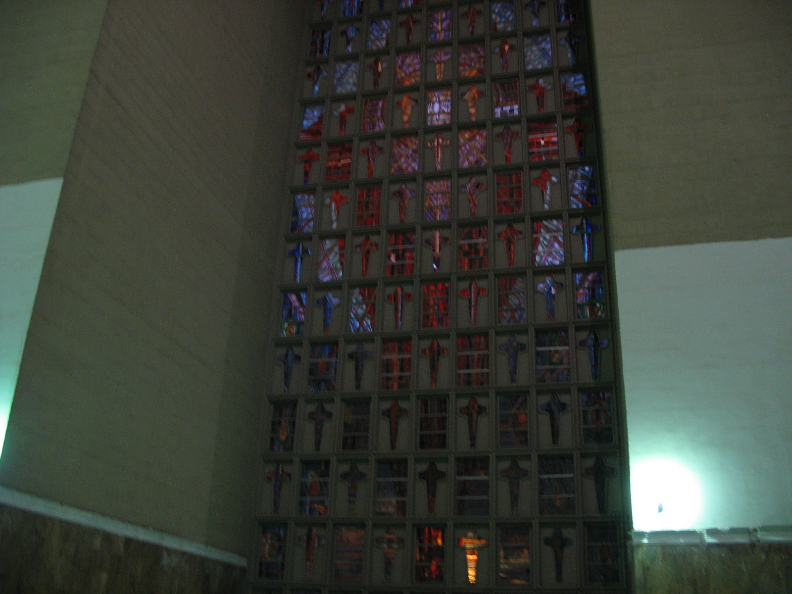 Catedral Barranquilla Vitral lateral derecho Eucaristia.jpg